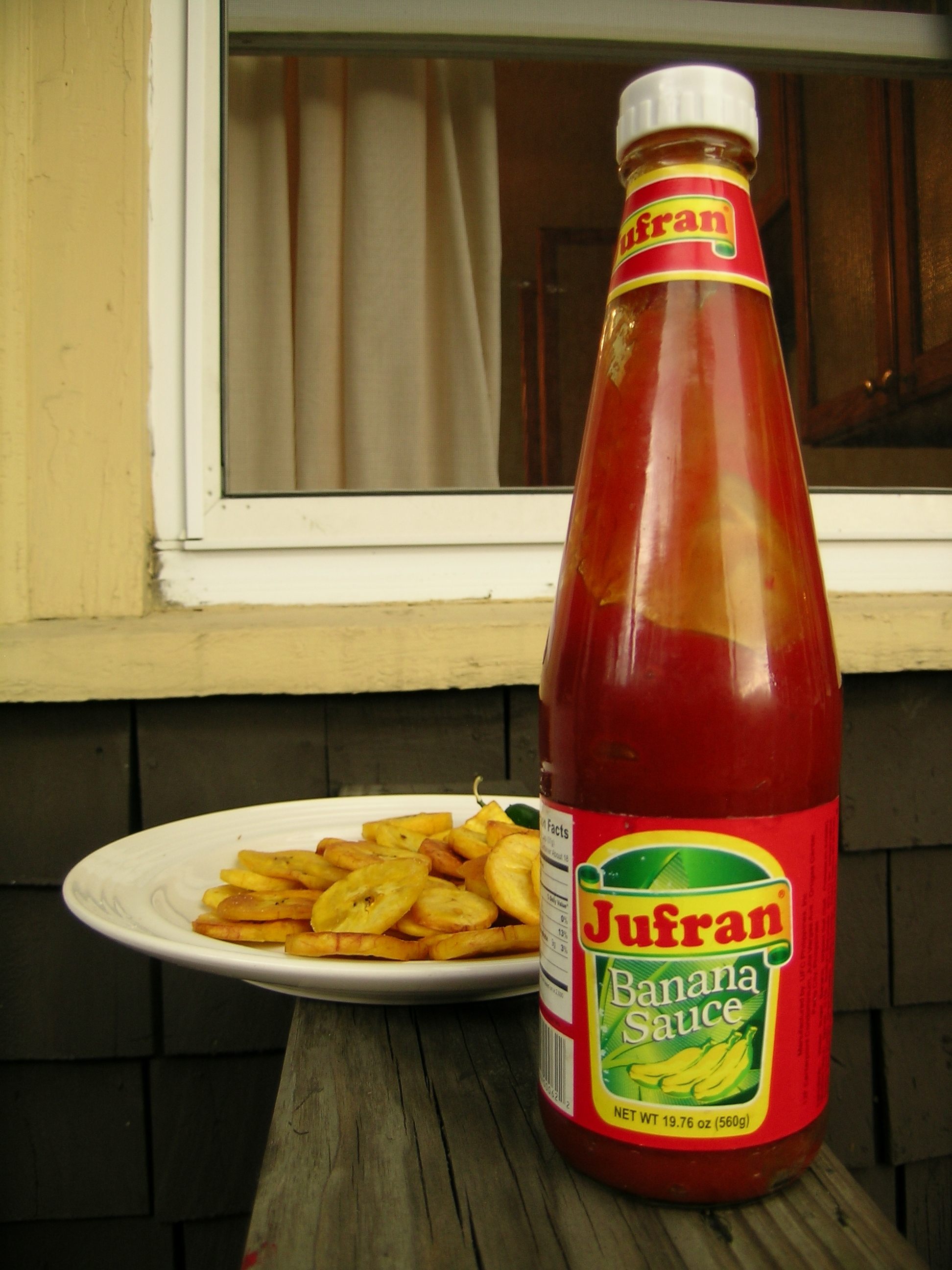 "Jufran Banana Sauce", a brand of banana ketchup made in Pasig City, Philippines shown with a plate of plantain tostones. Photographed in Jamaica Plain, Massachusetts.